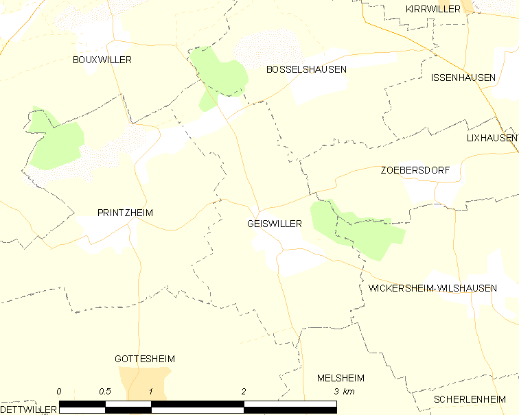 Map of French municipality